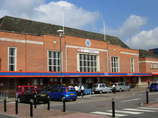 Doncaster Station The impressive frontage to this important East Coast Main Line station.